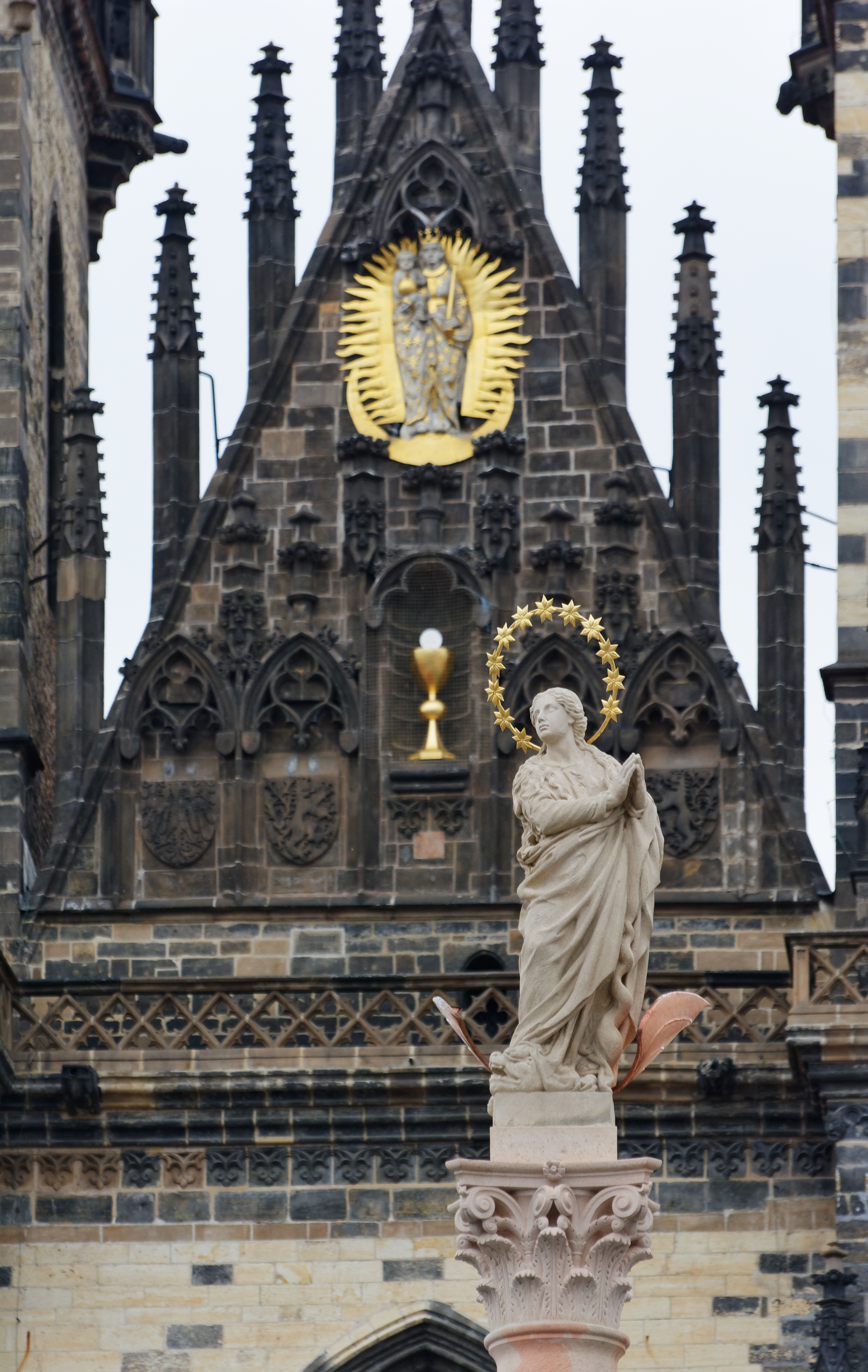 The Maria column replica, Prague, Old Town Square.